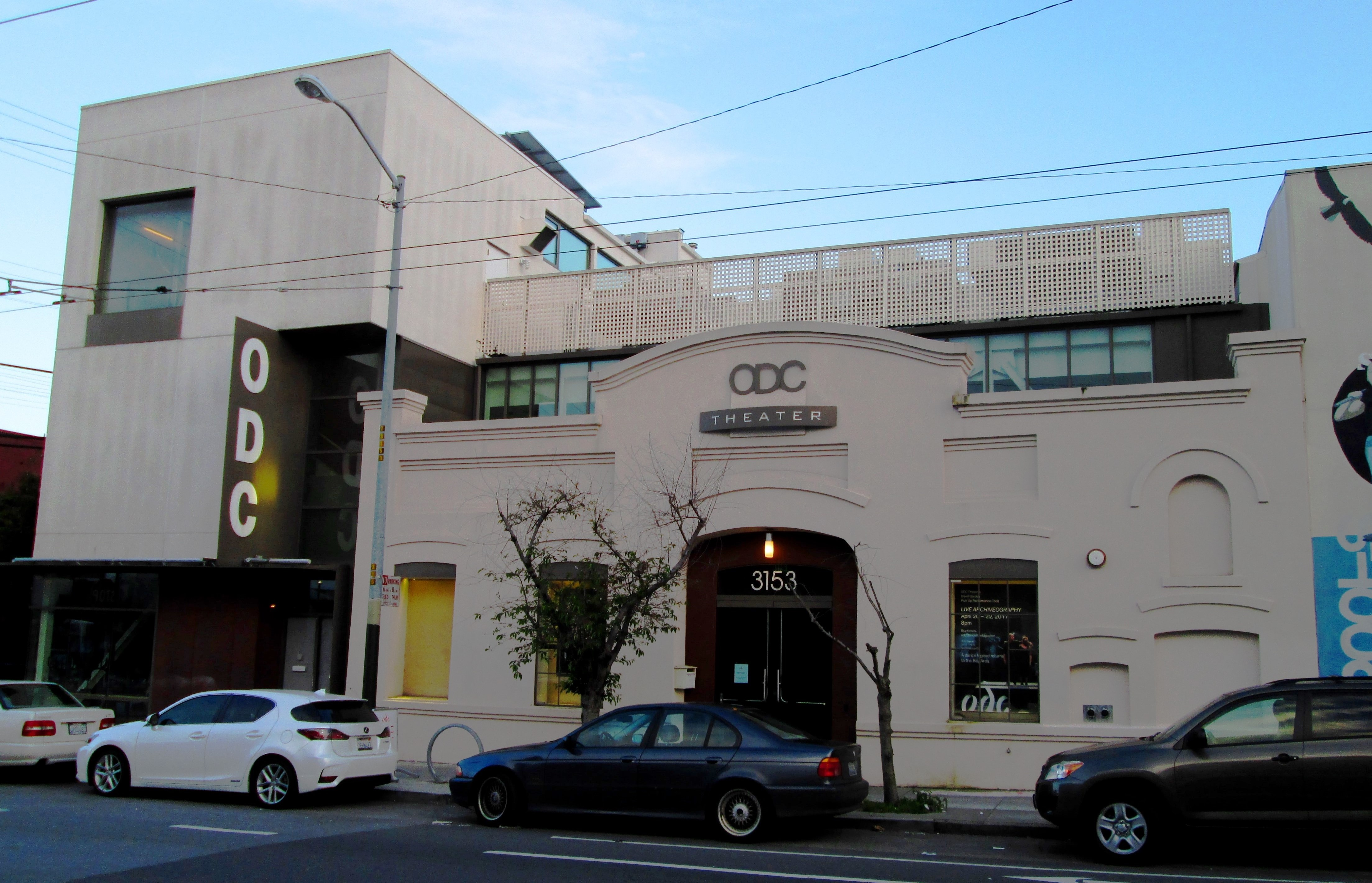 The ODC Theater at 3153 17th Street at the corner of Shotwell Street in the Mission District of San Francisco, California is a 170-seat venue which presents over 150 performances each year. ODC, formerly the Oberlin Dance Collective founded in 1971, moved from Ohio to San Francisco in 1976, and when the theater was built in 1979, it became the first modern dance organization to build its own performance venue. The ODC Dance Commons is located at 351 Shotwell Street, down the block from the theater.